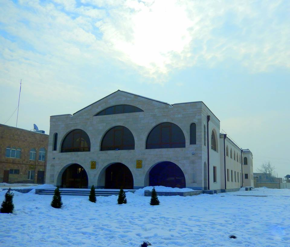 Vedi Culture House